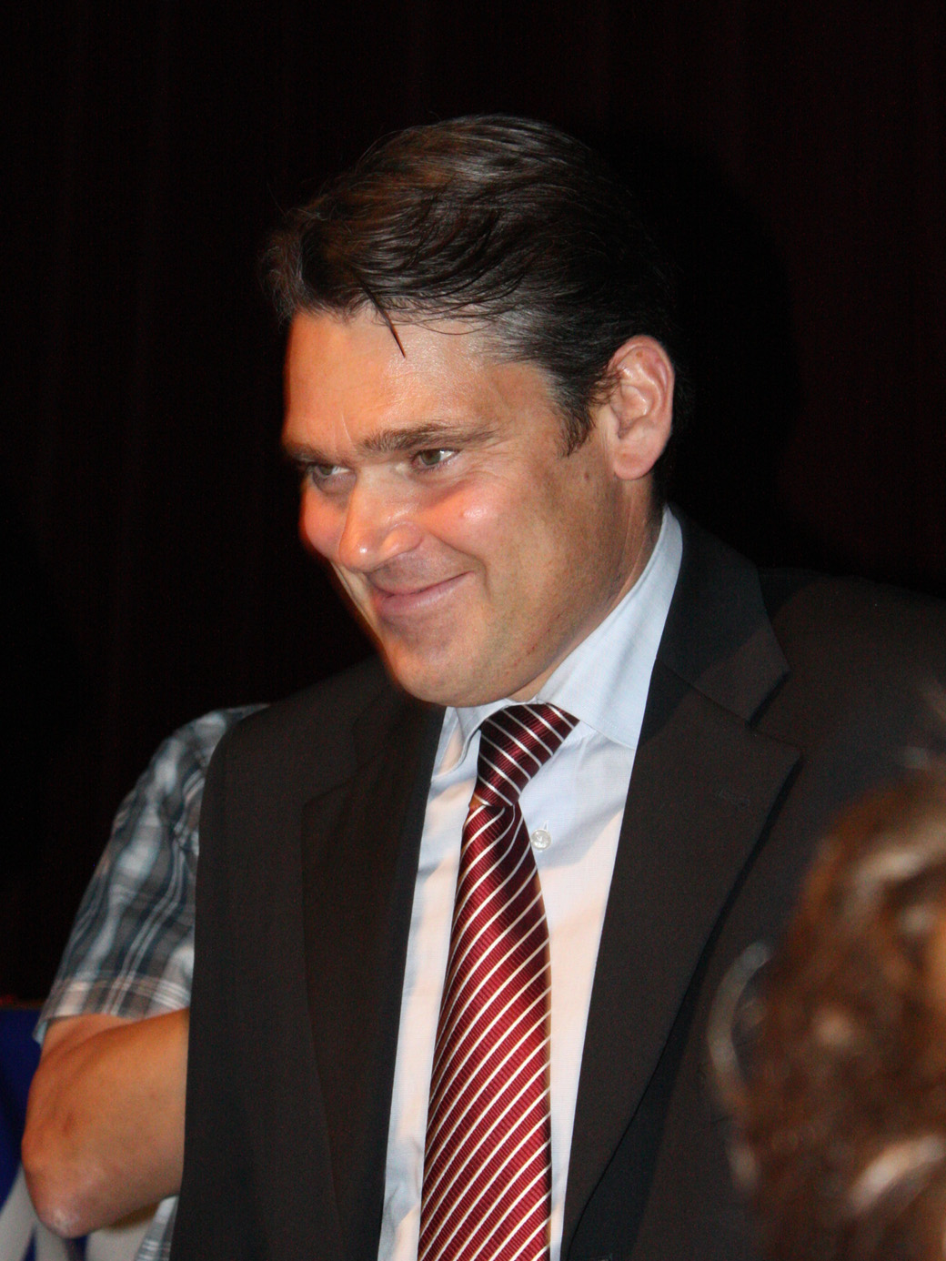 Marco van den Berg, coach for GasTerra Flames